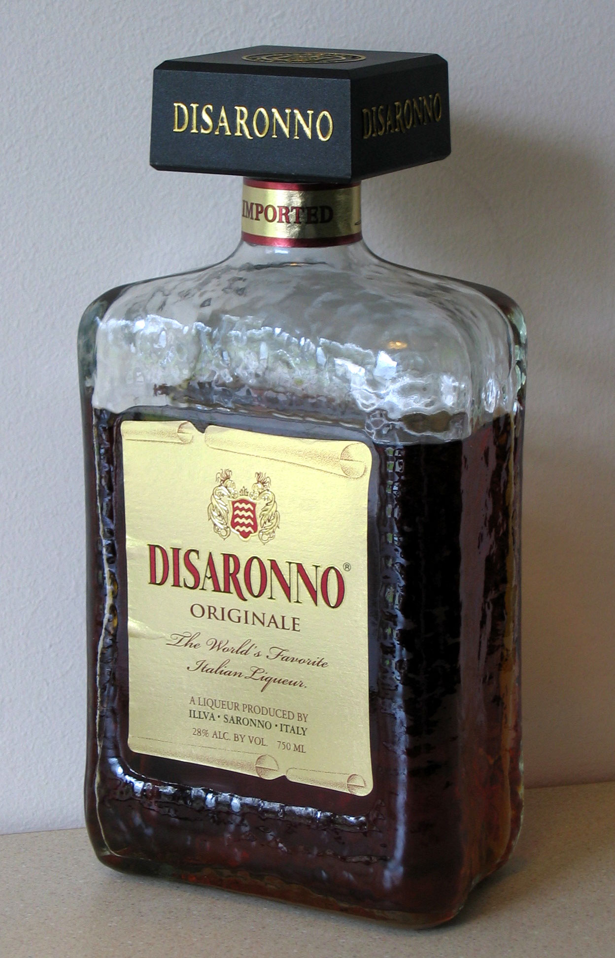 Disaronno Amaretto bottle